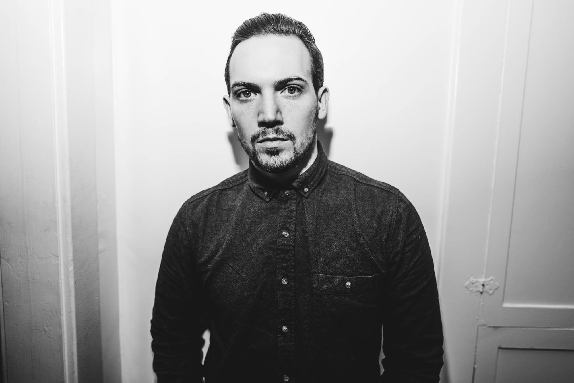 Drew Fulk 2016 in LA